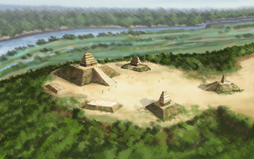 An artists depiction of the Anna Site (22 AD 500), a Plaquemine culture mound site in Adams County, Mississippi 10 miles north of Natchez. The site was inhabited from 1200 to 1500 CE.